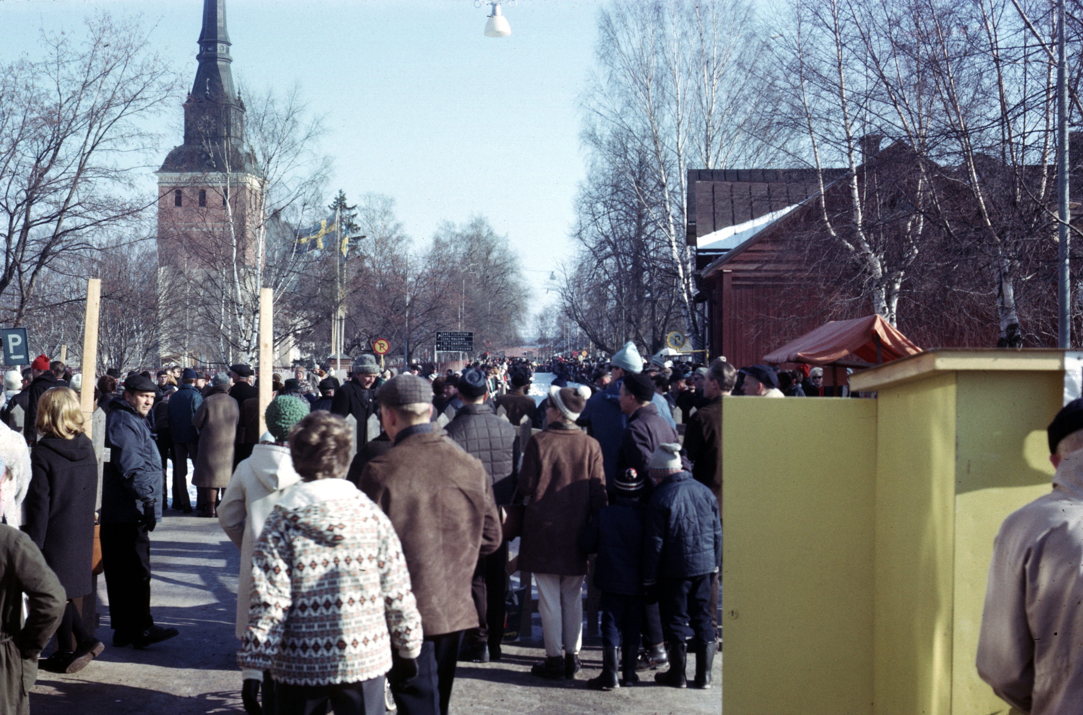 Crowd gathering at finish line mora noon 1st sunday in march